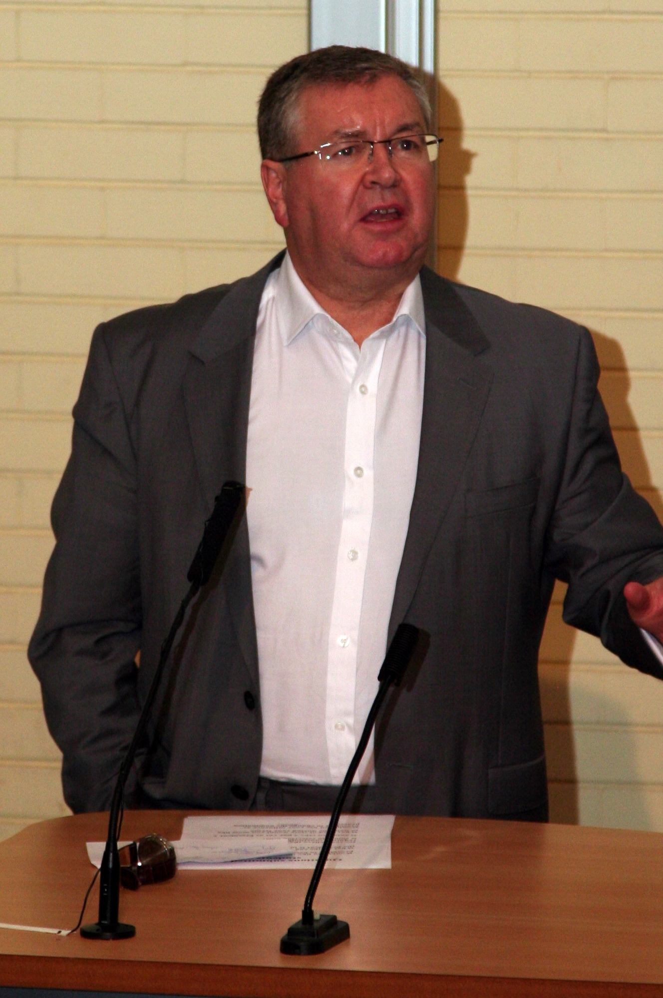 Photograph of Joe Duffy, RTÉ presenter. The photograph was taken on 28 September 2011 in University College Dublin at the UCD Law Society's presidential debate.